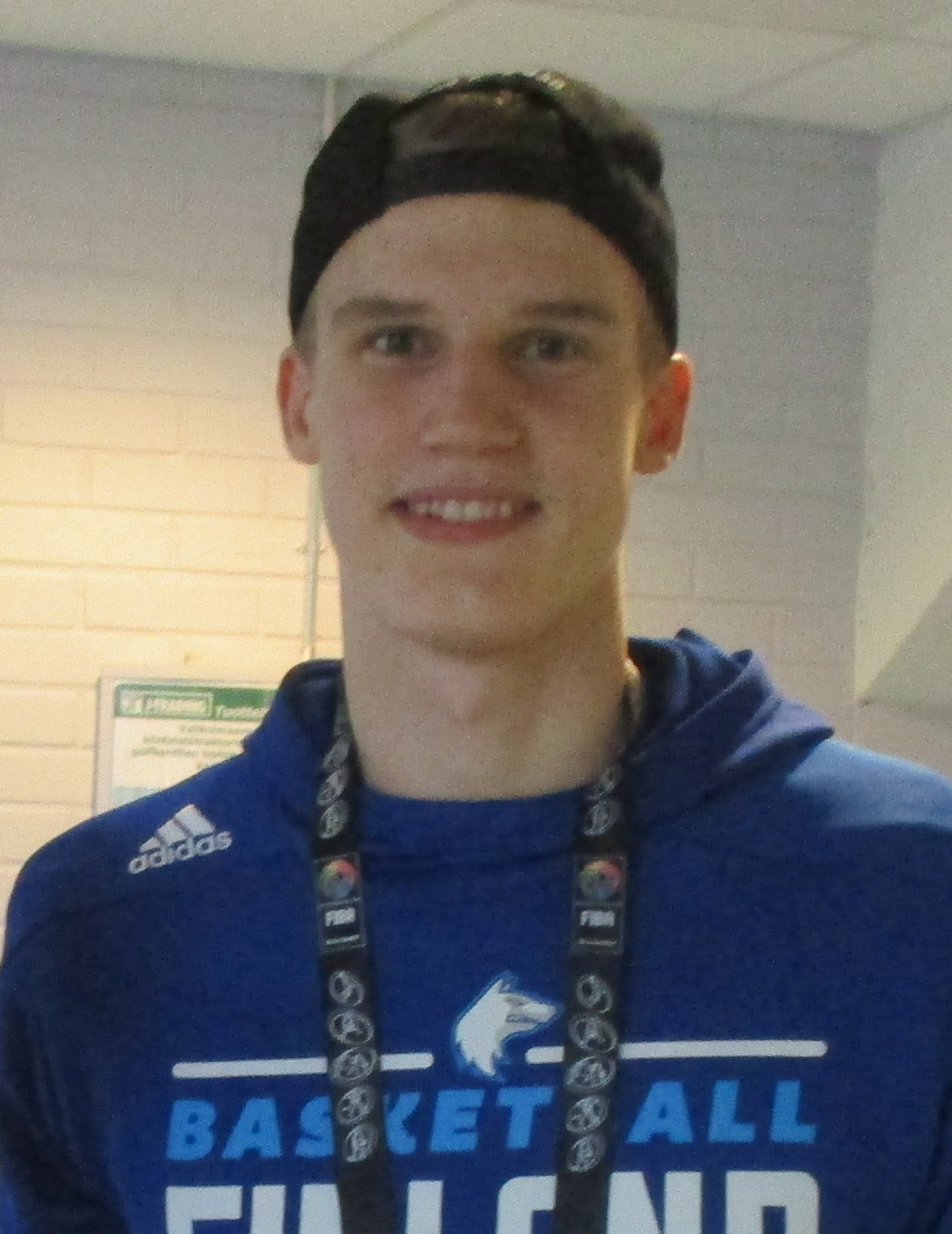 Lauri Markkanen at Helsinki ice hall at 2016 FIBA Europe Under-20 Championship in Helsinki, Finland on 24th of July 2016.